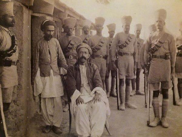 Sheikh Mahmoud as sent to exile by Englishmen to India